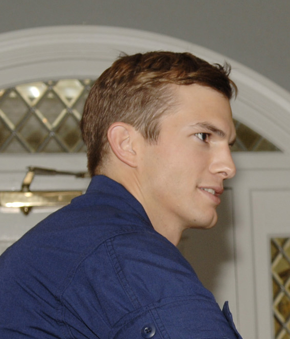 Ashton Kutcher greets 2nd Security Forces Squadron Airmen. The Airmen provided security support on the set of "The Guardian" while it filmed on base.